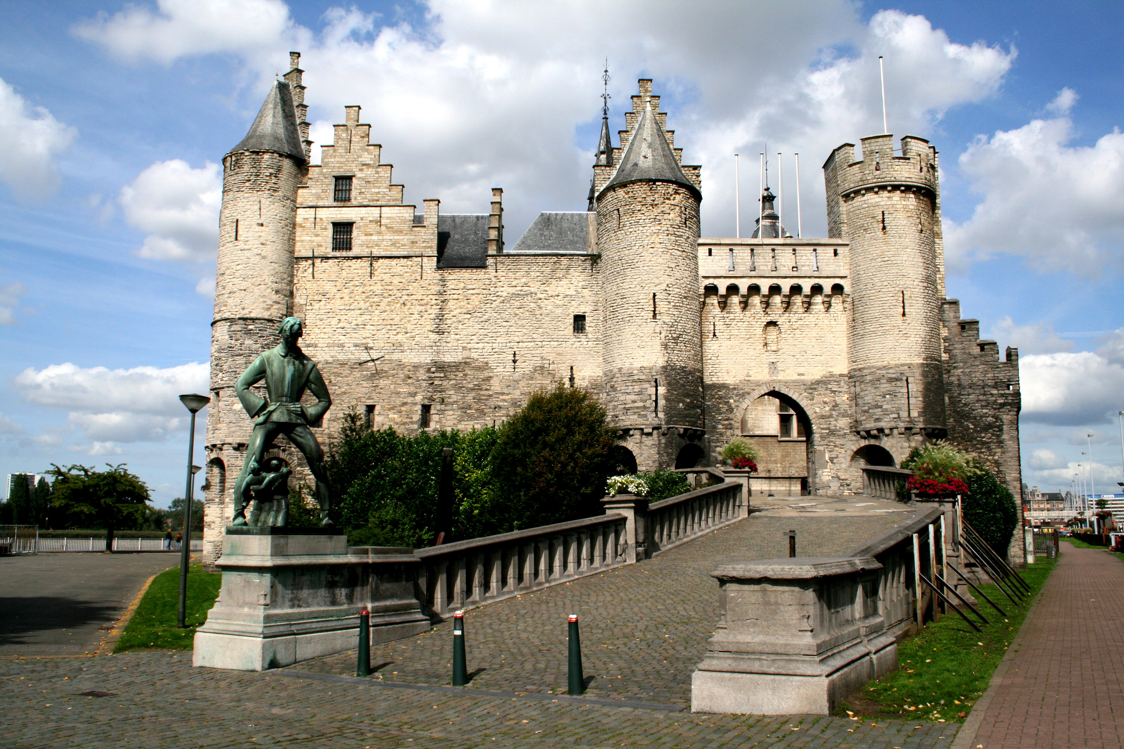 Het Steen - Antwerp, Belgium (XIII-XVIth centuries).